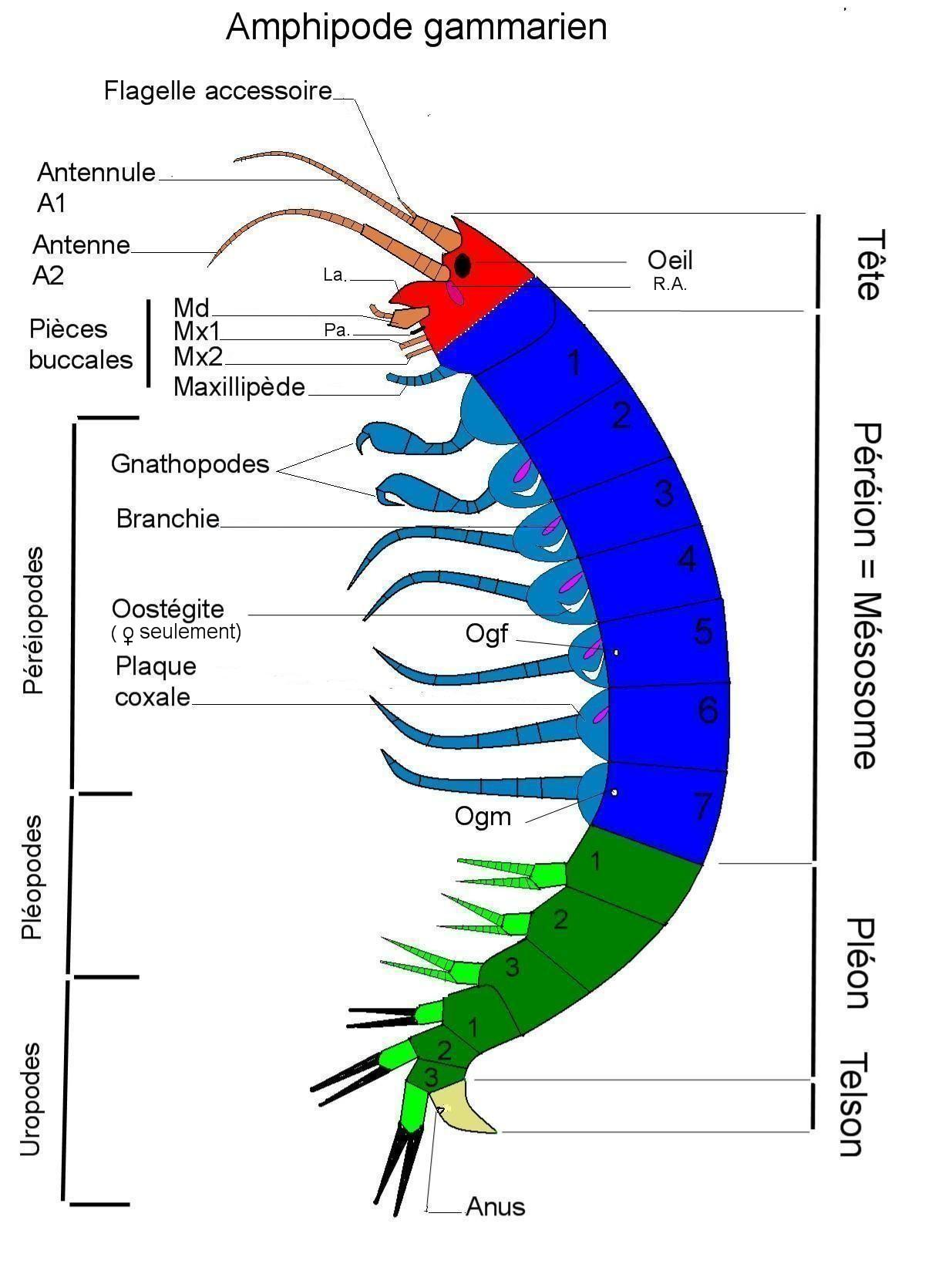 Gammaridea amphipod. Body plan